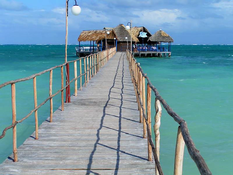 Santa Lucia Beach, Camagüey Province, Cuba.